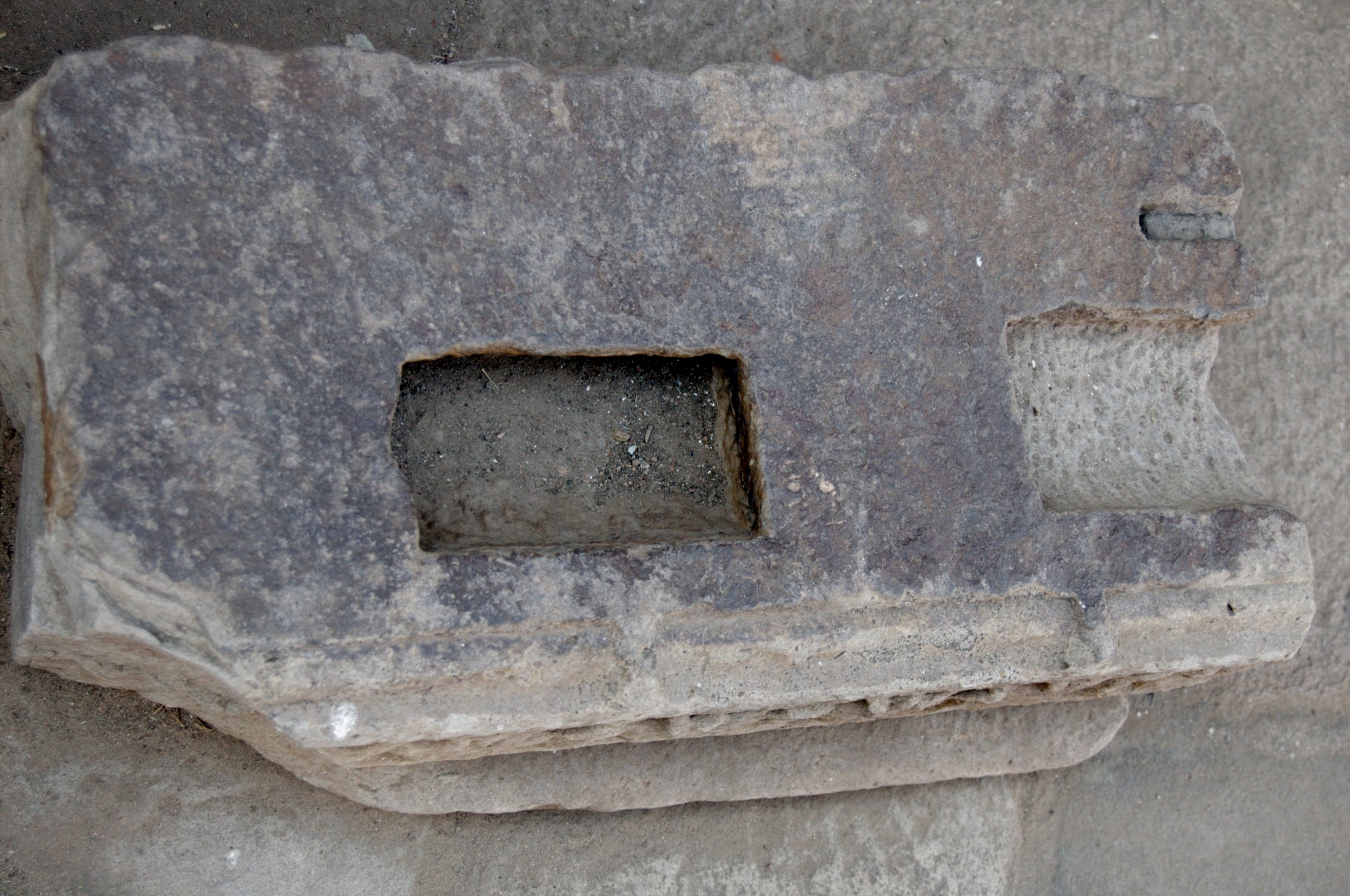 the minar has never been damaged by earthquakes; this stone suggests why -- it's a variant of a mortise-and-tenon joint; not only do they interlock, but the mortise and tenon are curved.Hindi: क़ुत्ब मीनार